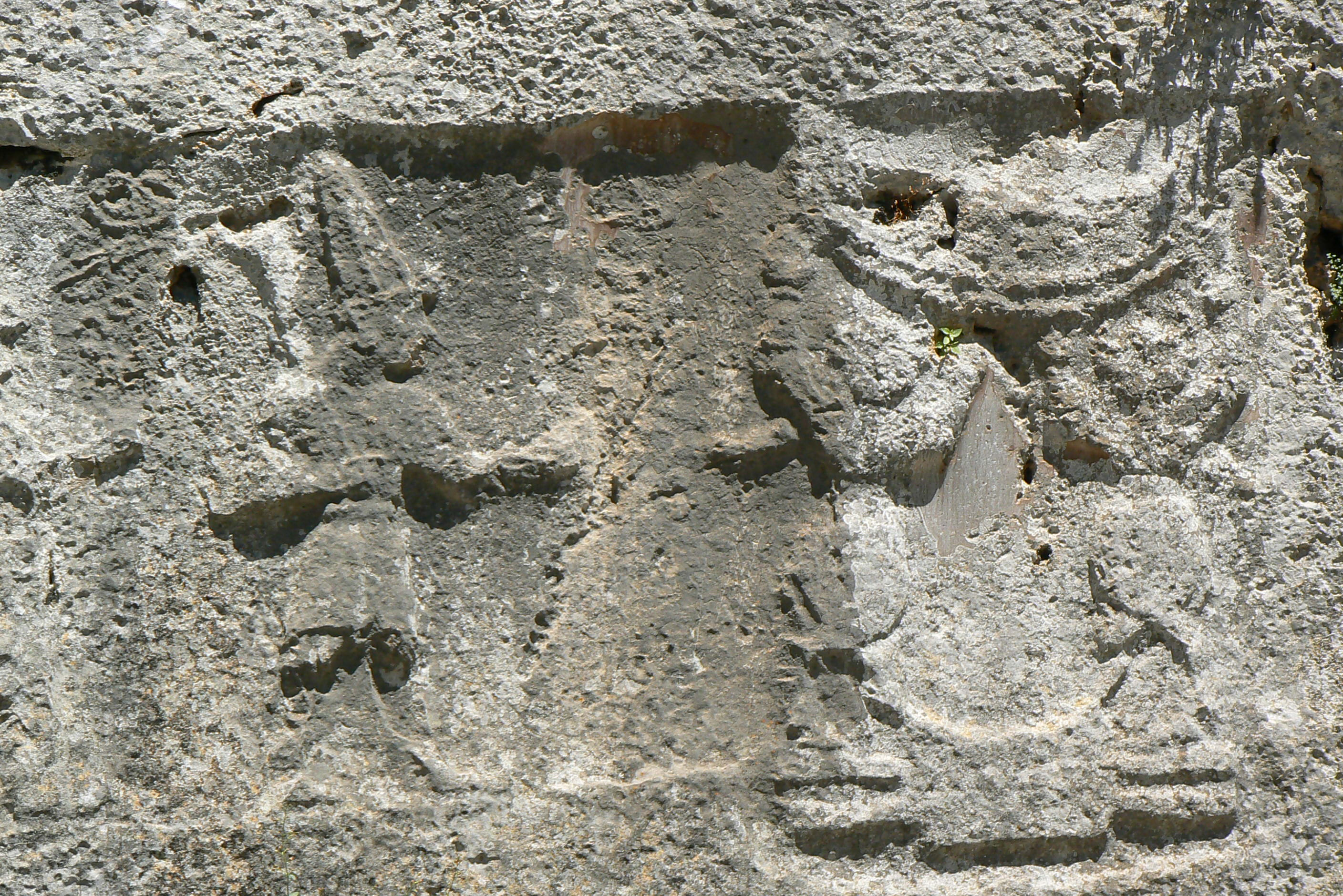 Reliefs of Nergal, god of the underworld and two creatures with the hindquarters of a bull but with a hunan torso and arms, Yazilikaya, hittite rock sanctuary, Anatolia, Turkey